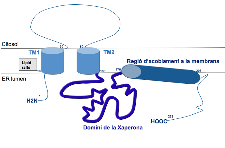 Estructura del receptor i disposició en la membrana.